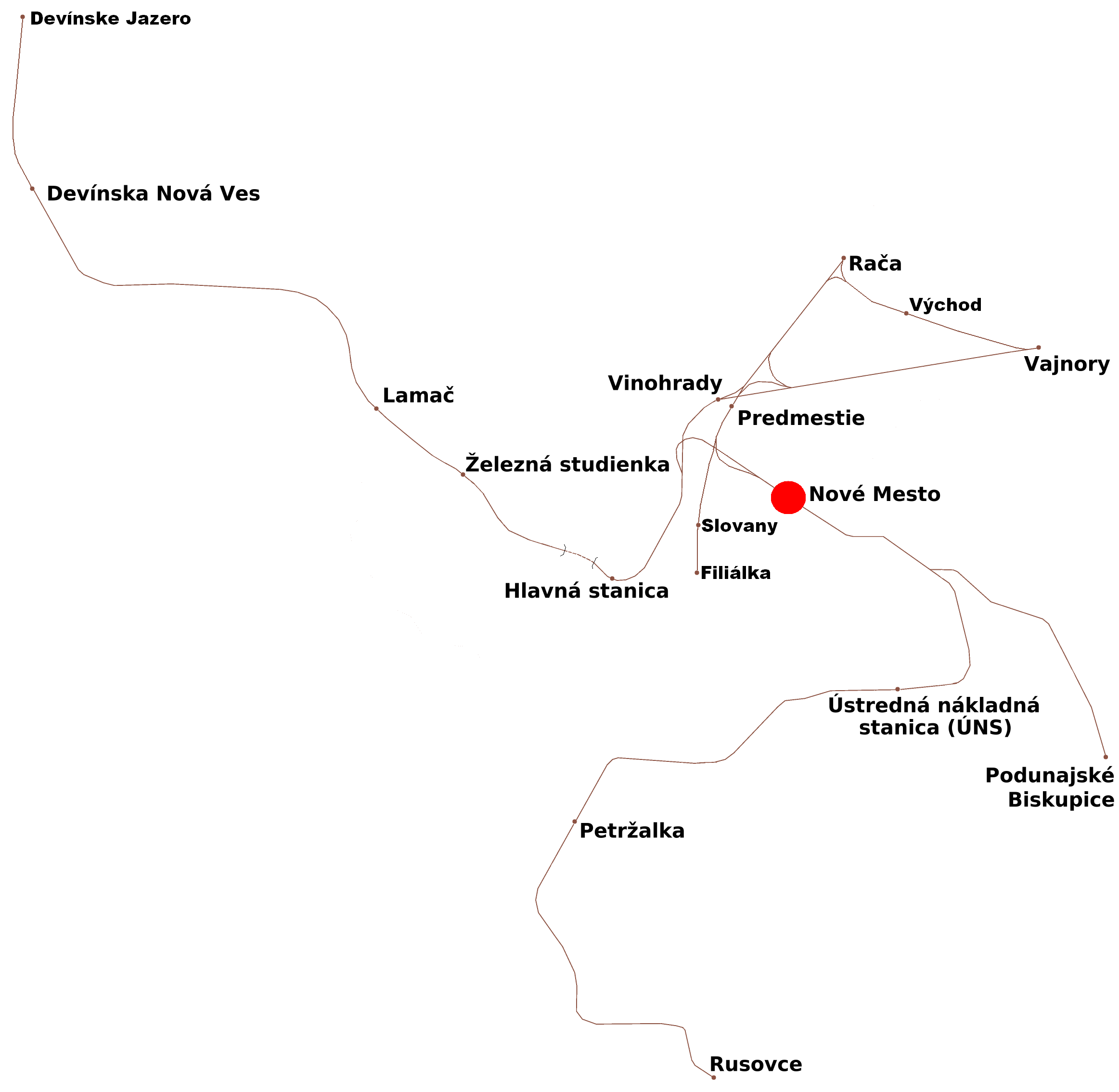 Bratislava Bratislava-Nové Mesto (Slovakia) Railway station locality.